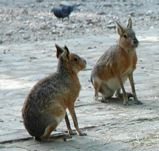 Dolichotis patagonum. Taken in "jardin des plante" in Category:Paris.